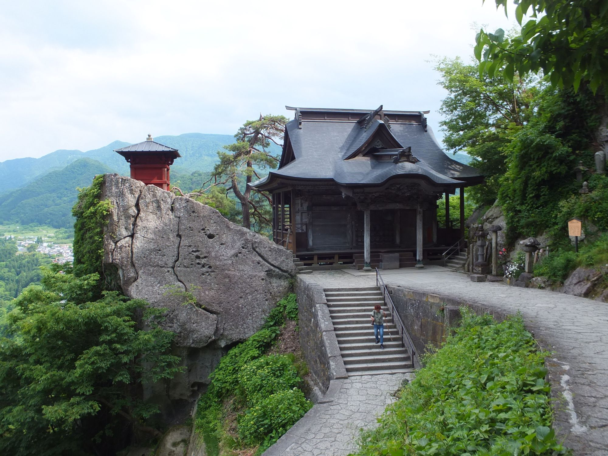 Kaisan-dō hall (right) and Nōkyō-dō (Sutra Repository,left) of Risshaku-ji temple in Yamagata-shi, Yamagata prefecture